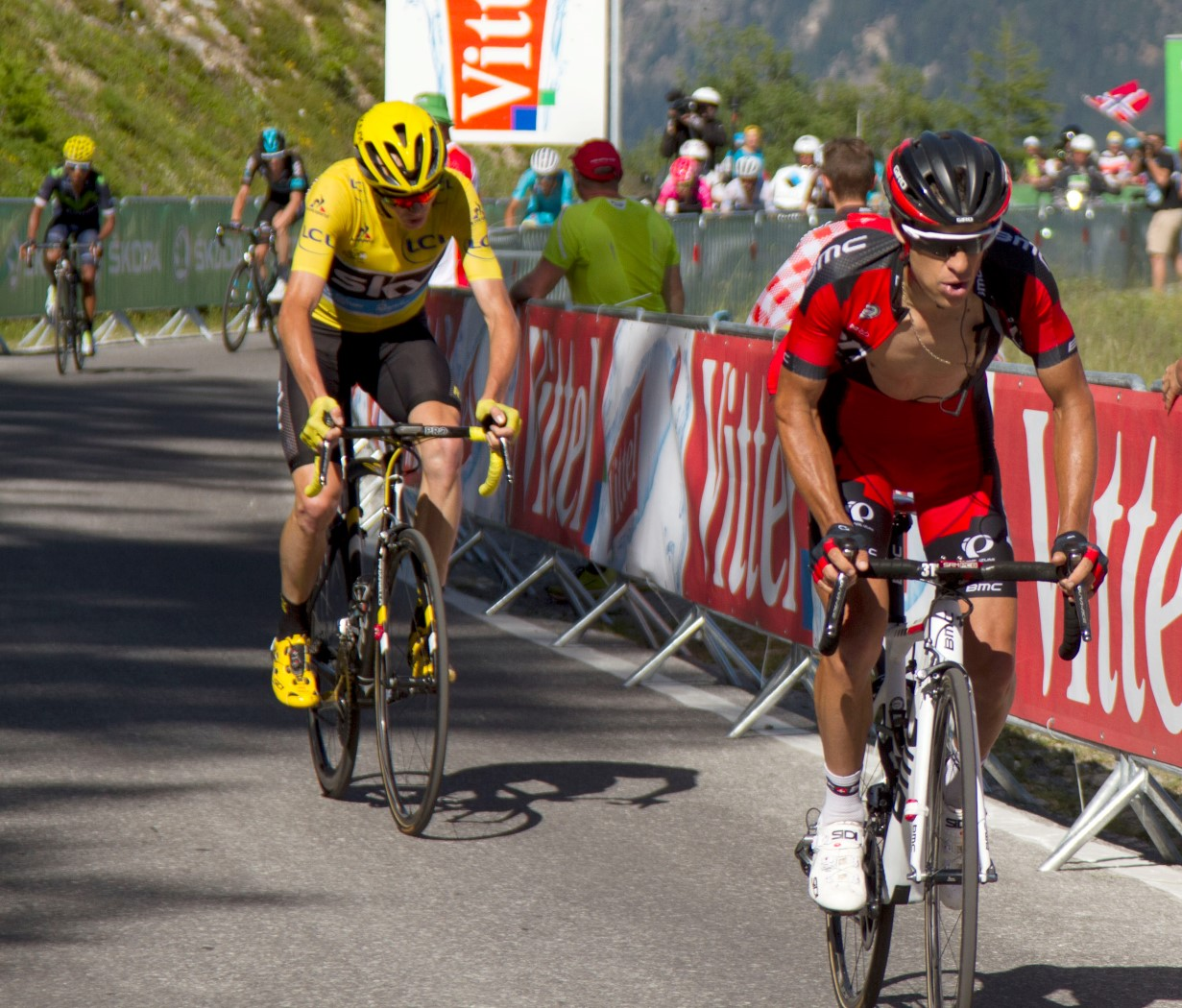 226 froome porte